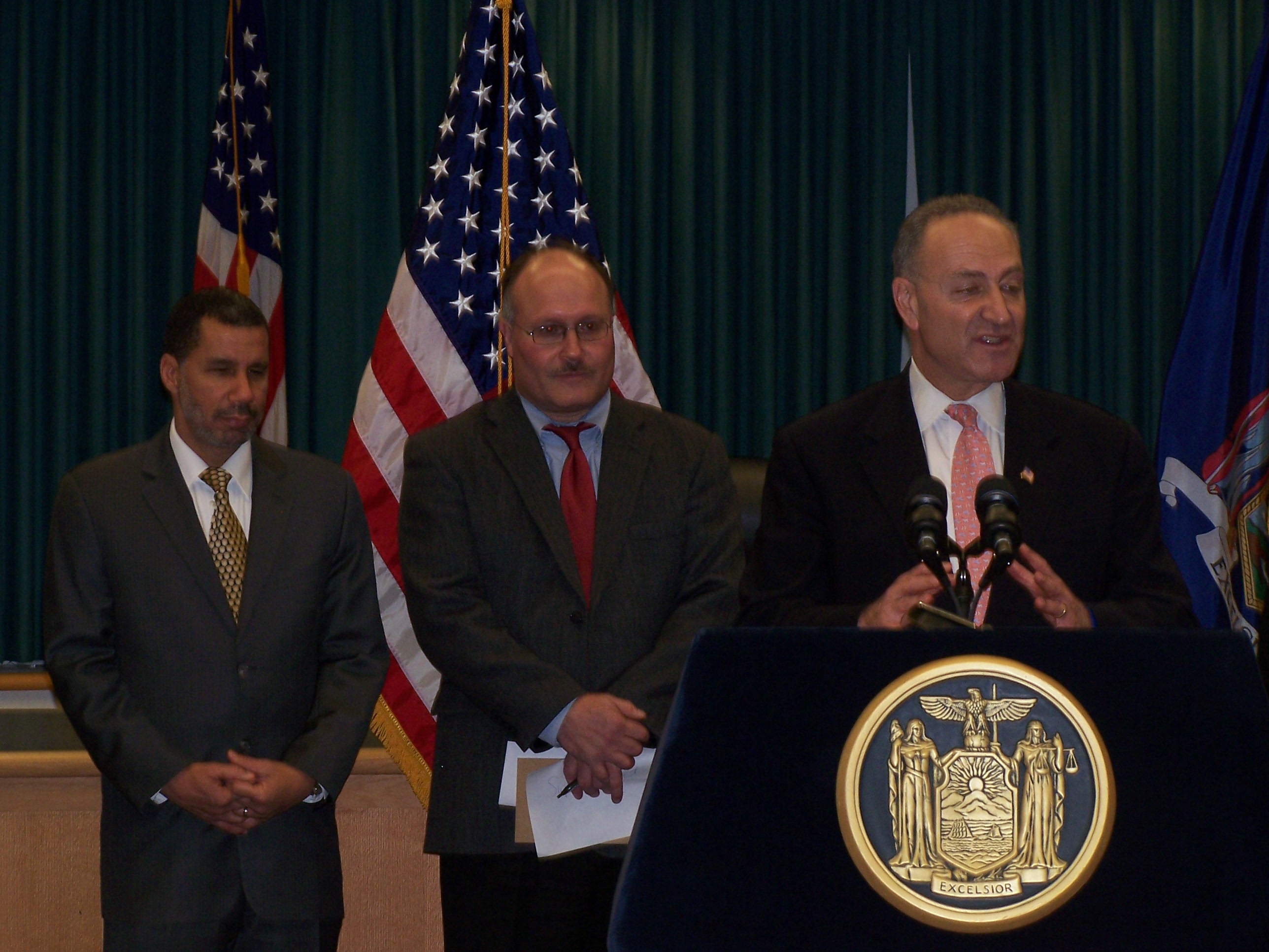 Senator Chuck Schumer (D), Governor David Paterson (D) and Niskayuna Town Supervisor Joe Landry (D) after the 2008 Ice Storm